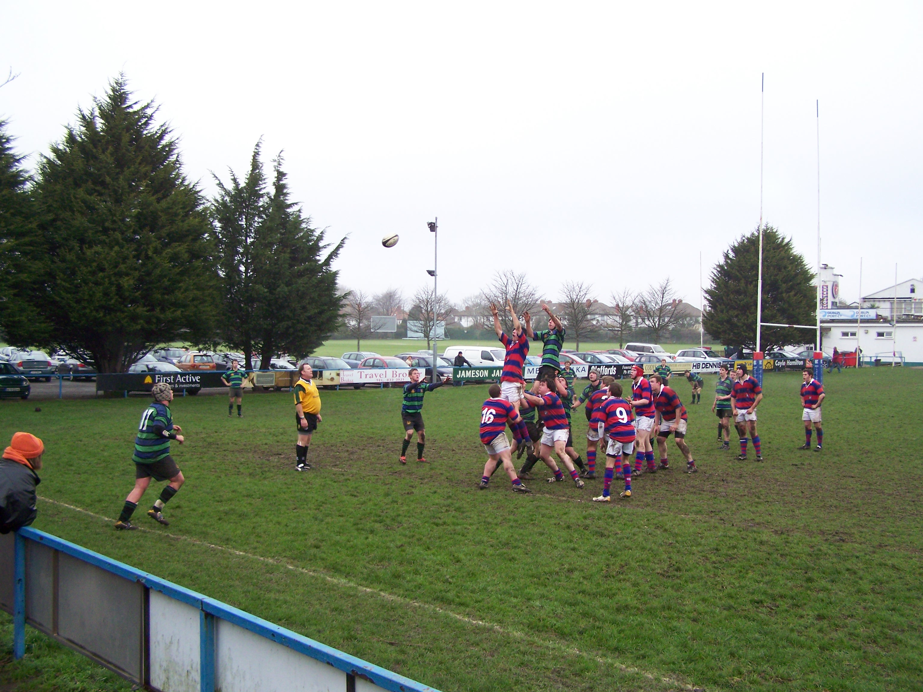 Rory Deegan